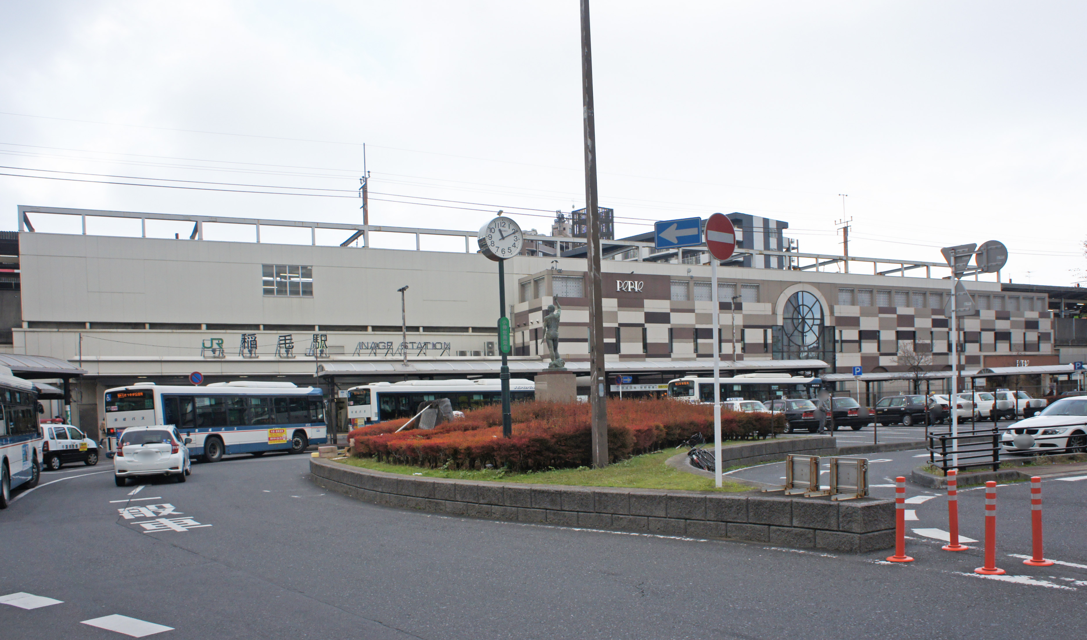 East Exit of JR Sobu-Main-Line Inage Station